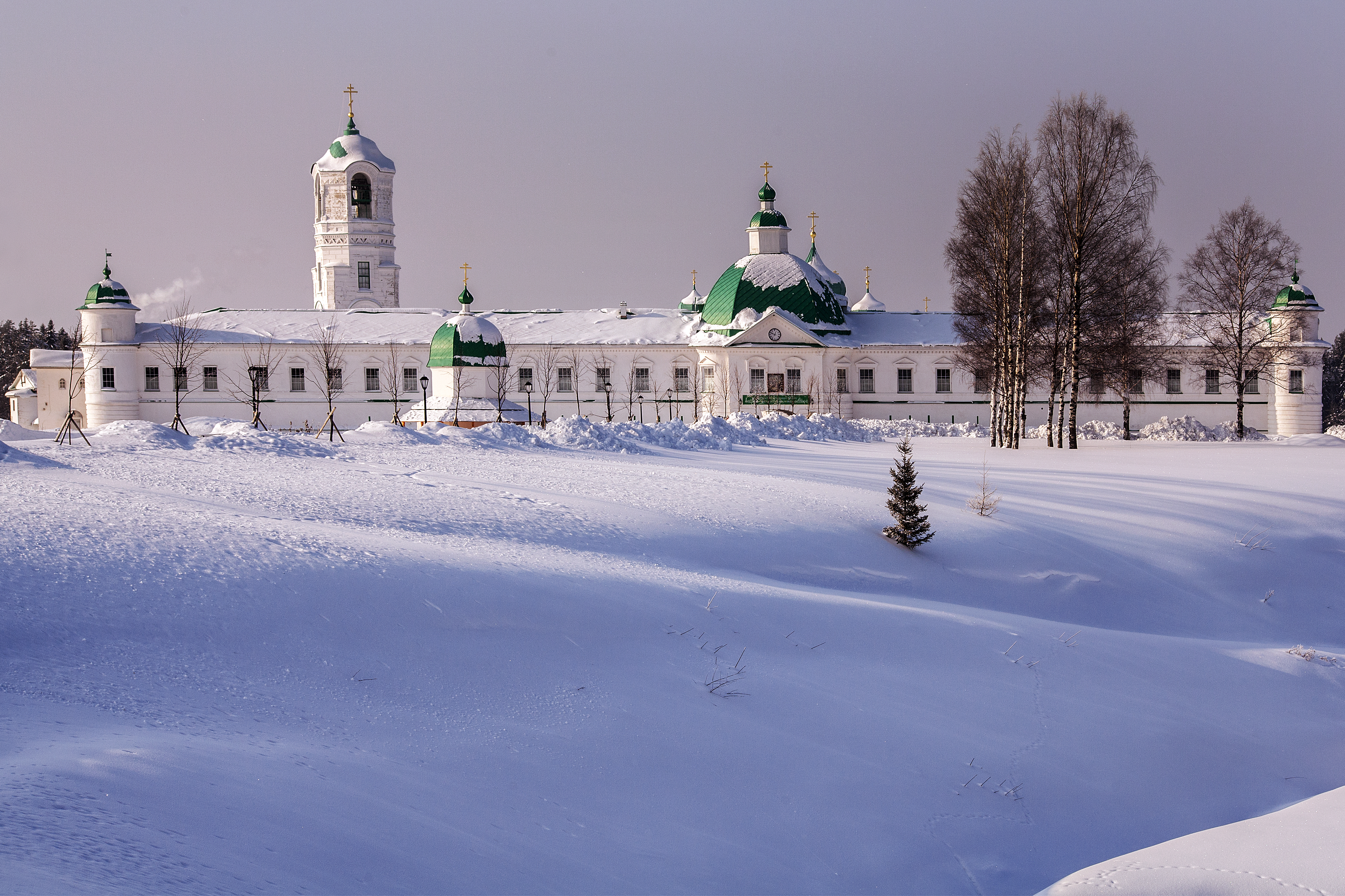 Leningrad Oblast